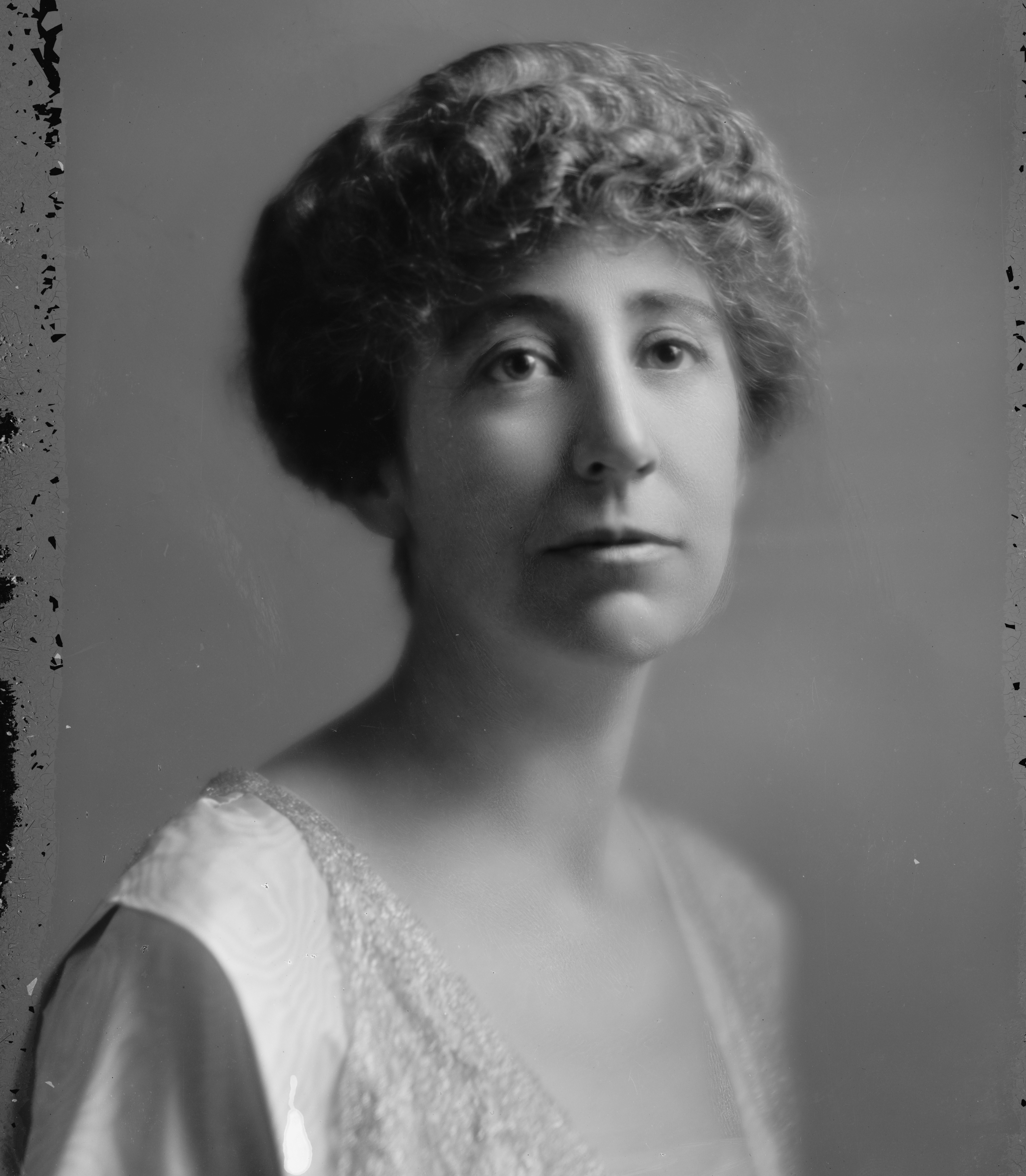 Title: RANKIN, JANETTE [JEANETTE], MISS Abstract/medium: 1 negative : glass ; 8 x 10 in. or smaller